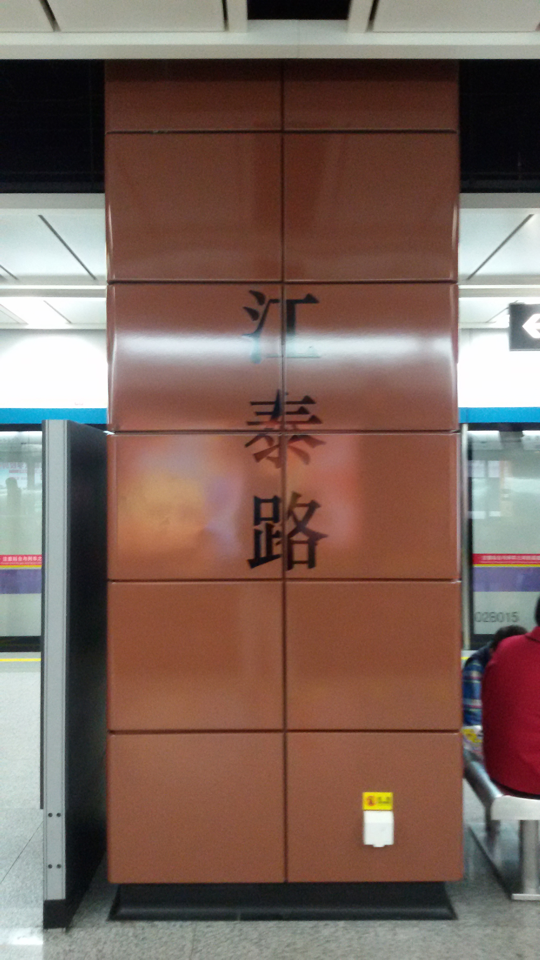 WORD on PILLAR for Jiangtai Lu Station in Guangzhou Metro 粵語: 廣州地鐵，江泰路站嘅柱上啲字。